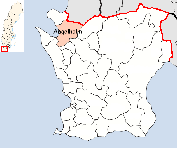 Ängelholm Municipality in Scania, Sweden Designed by me. Mere outlines are a PD source from